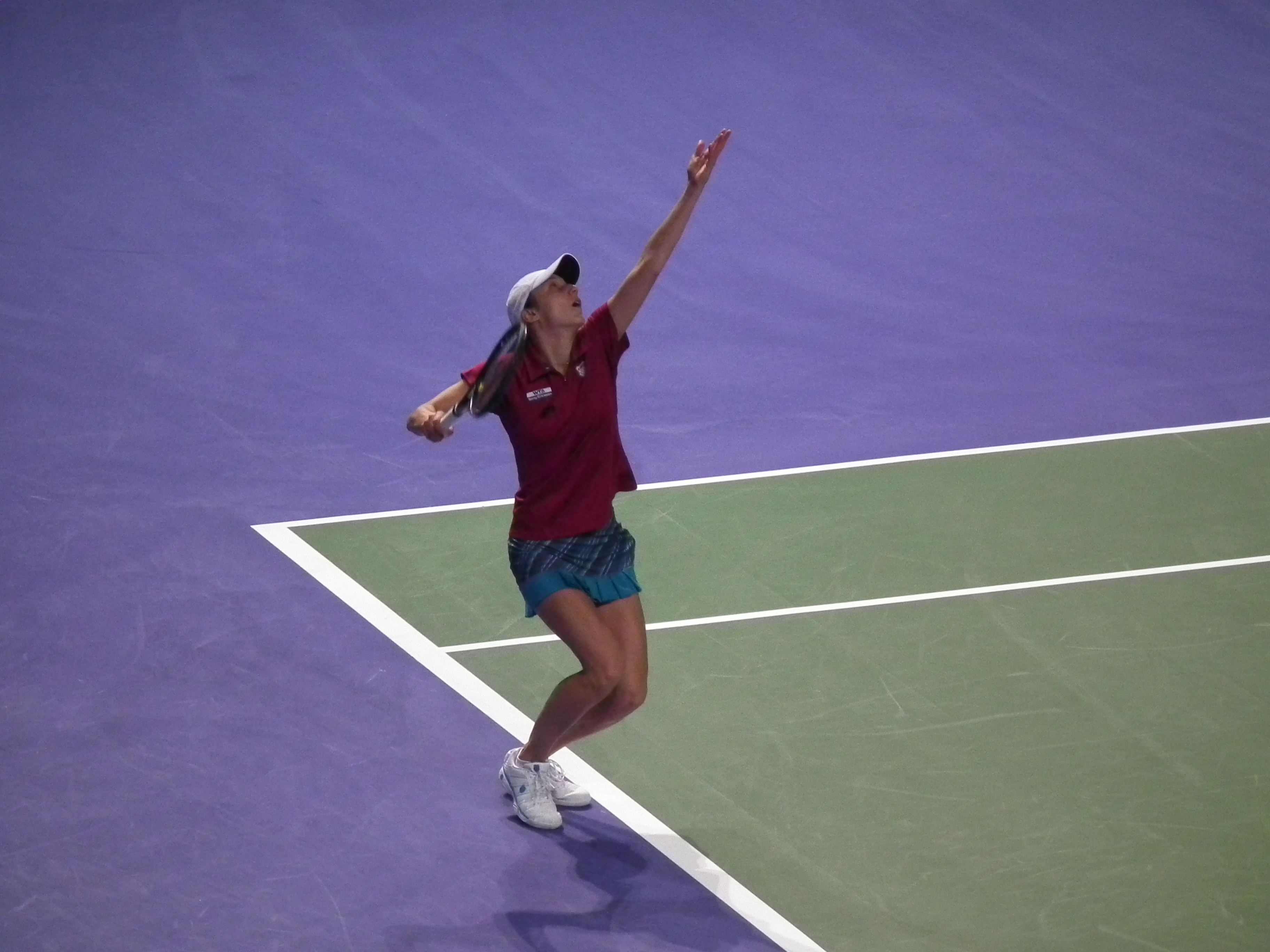 Katarina Srebotnik at WTA Istanbul 2011